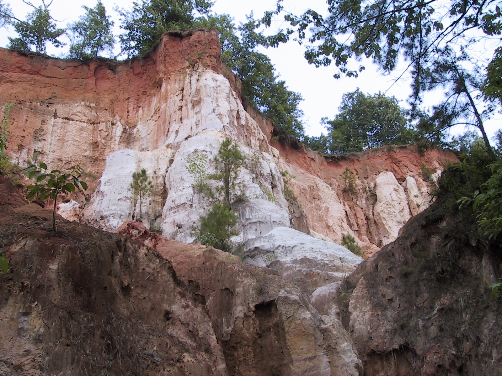 Providence_Canyon_GA_USA